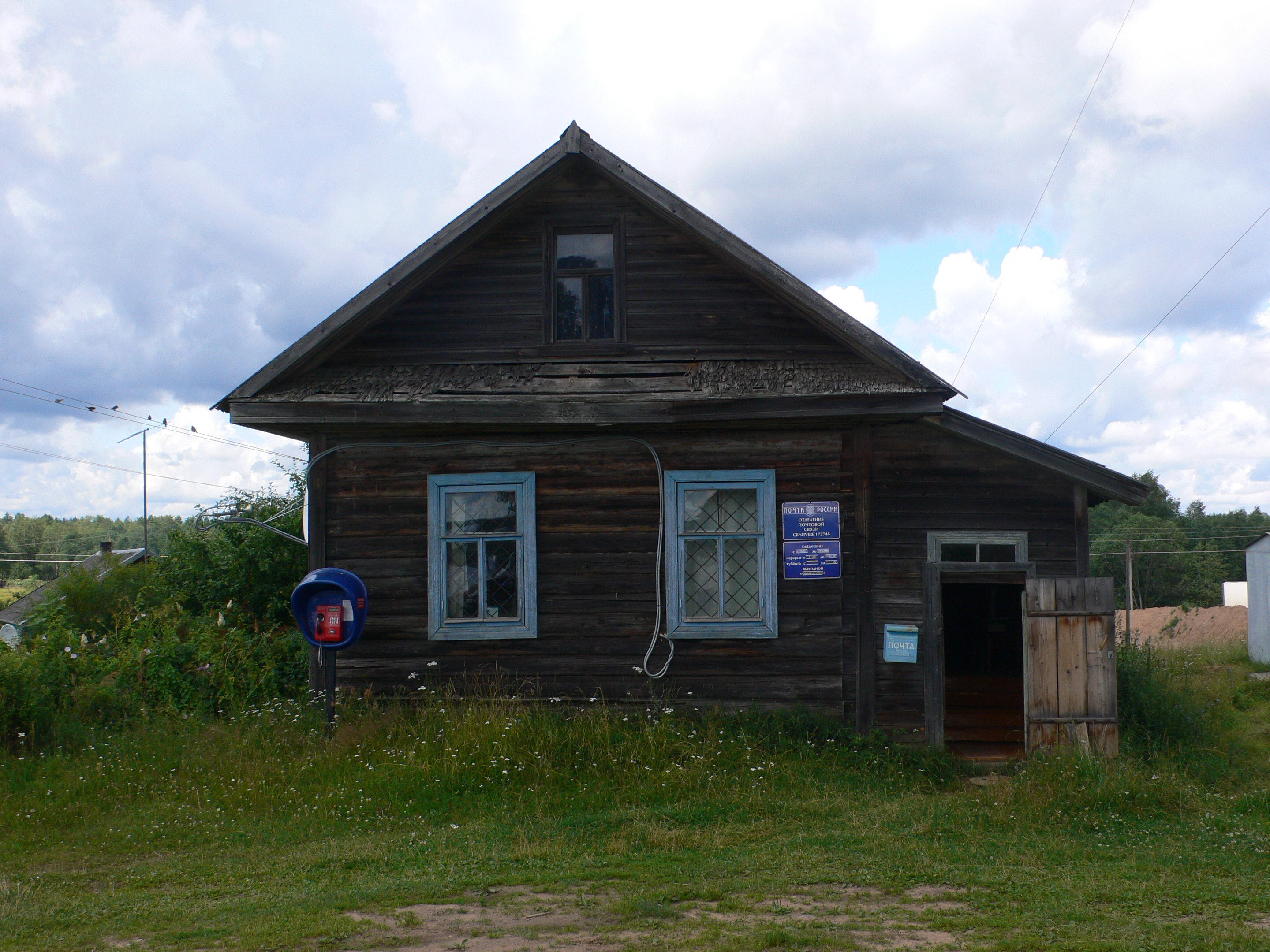 Postal office 172745 in Russian village